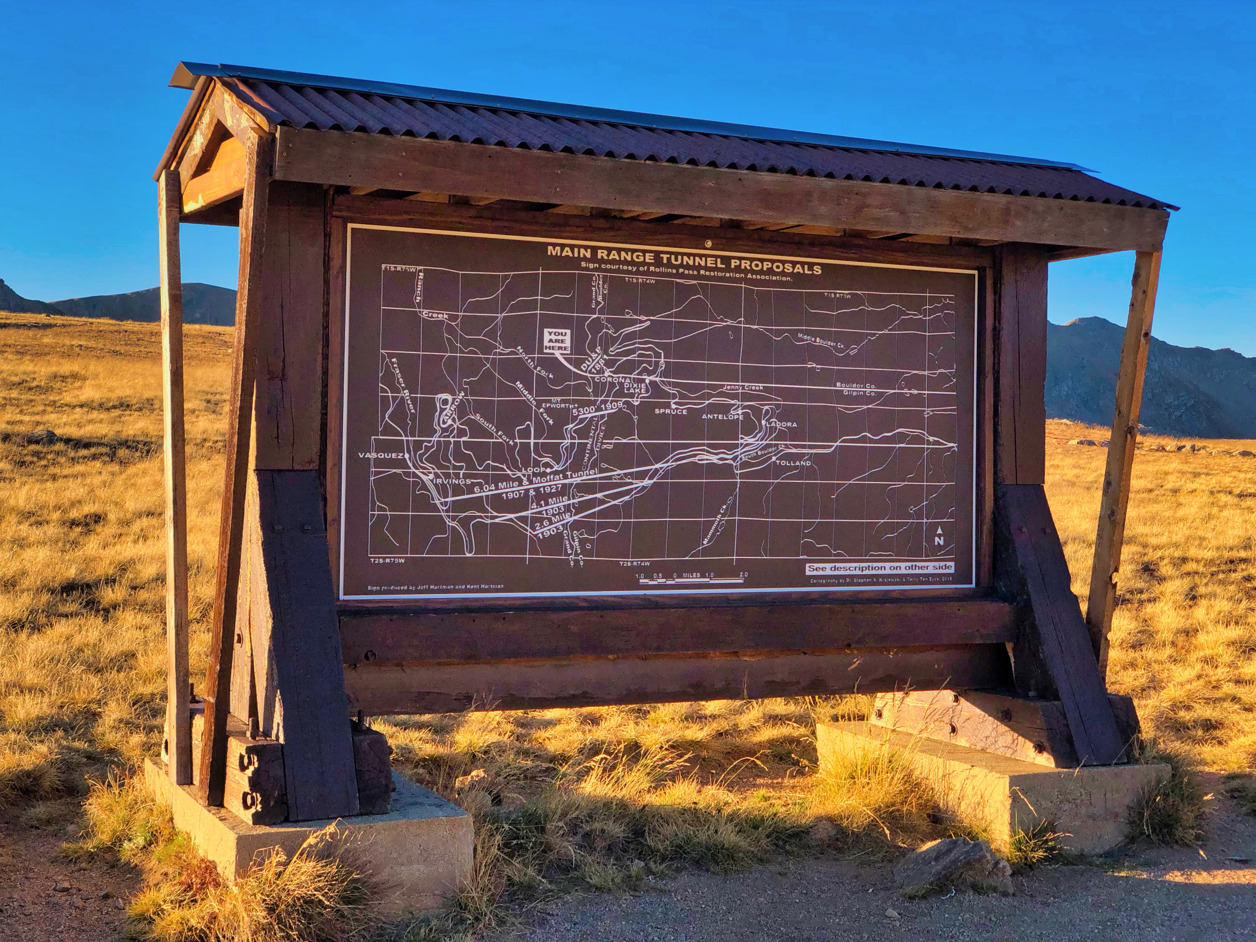 Picture of the sign that sits on top of Rollins Pass. Taken 2012.